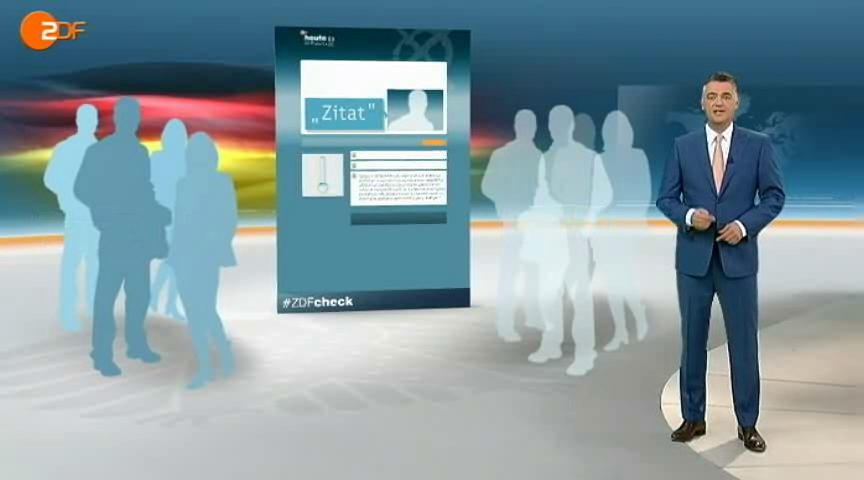 Matthias Fornoff explains "ZDFCheck"